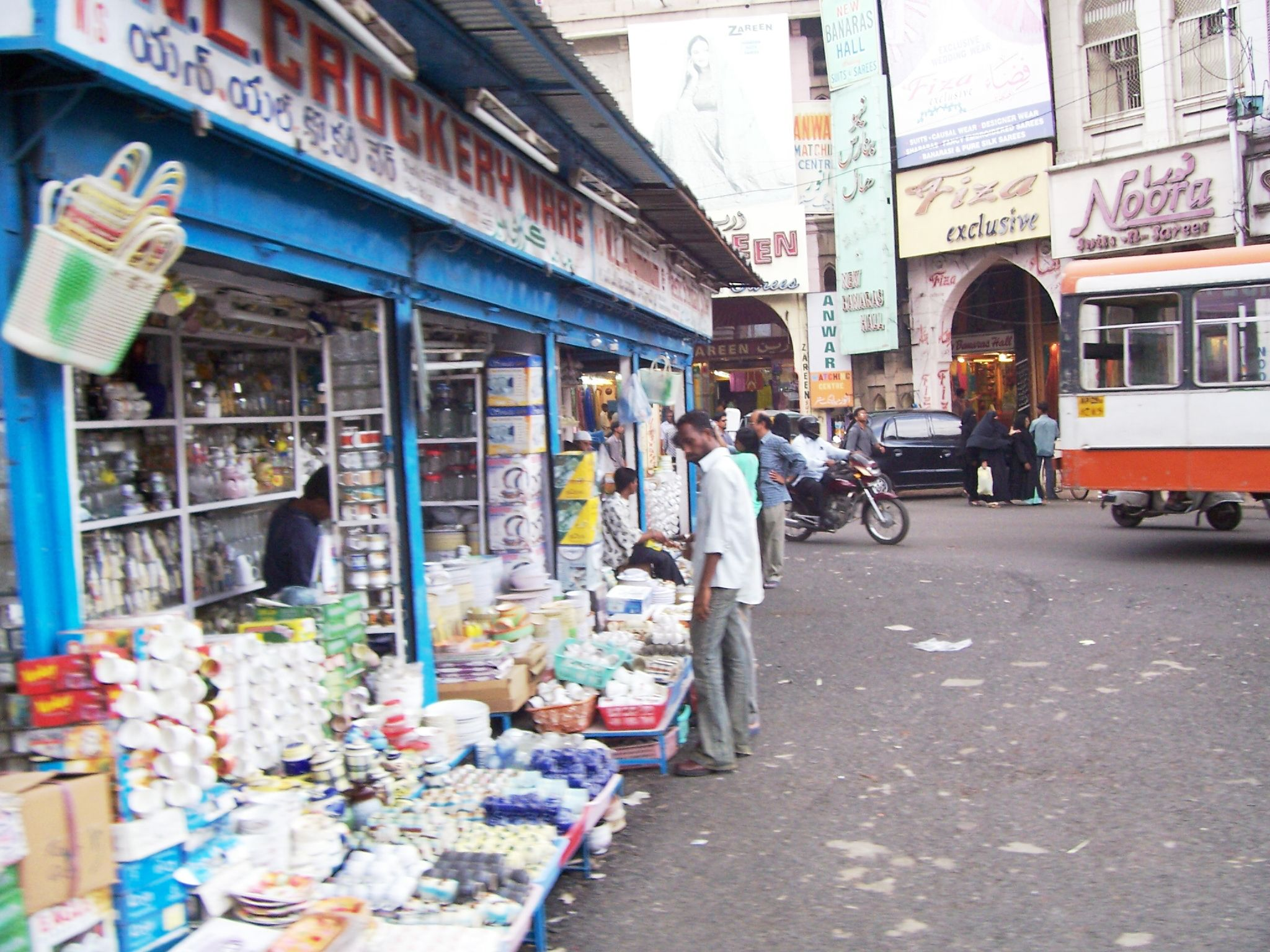 Pathargatti Market in Hyderabad